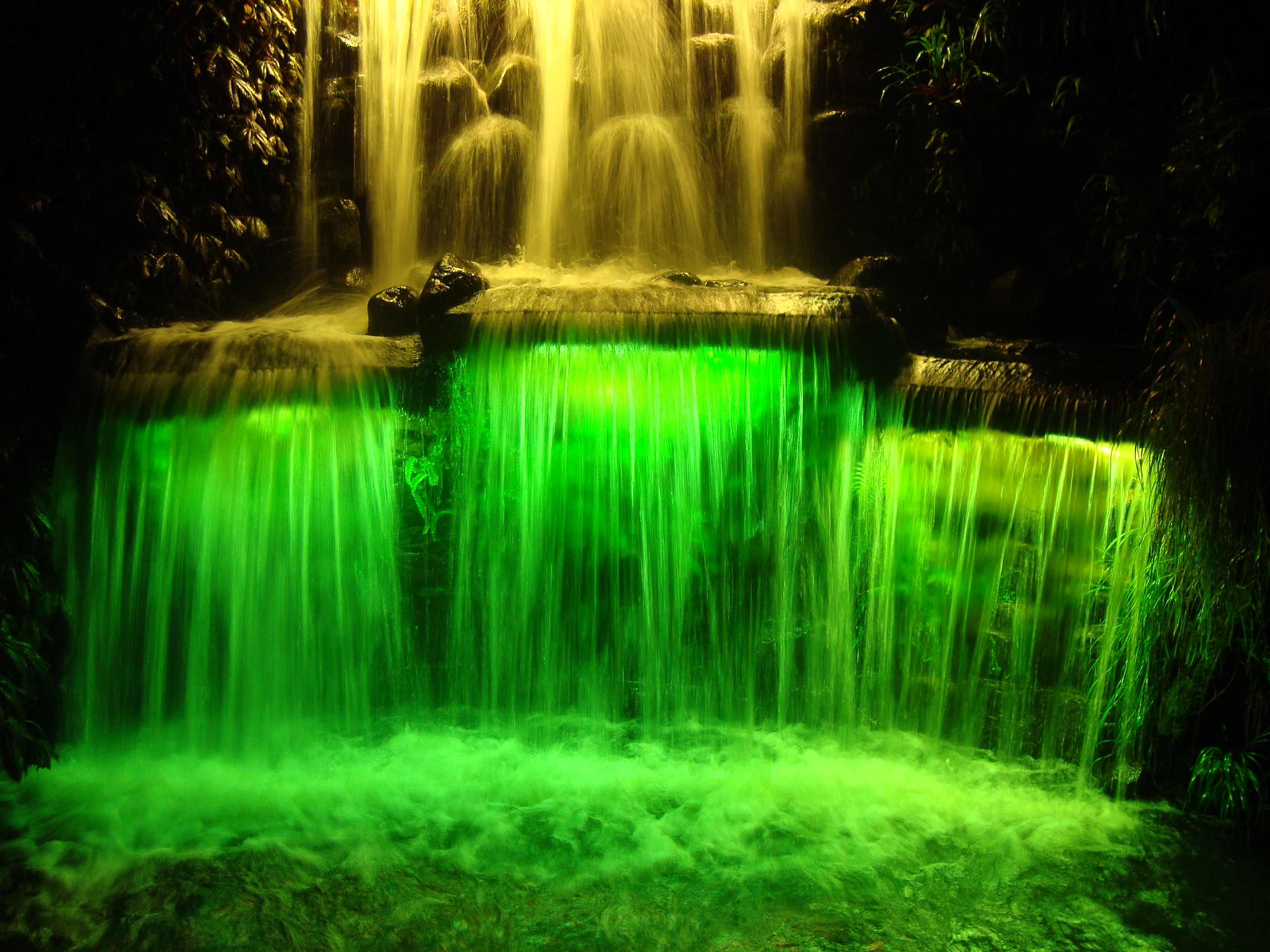 The lower two stages of the waterfall at Pukekura Park, New Plymouth, New Zealand, illuminated during the annual Festival of Lights.